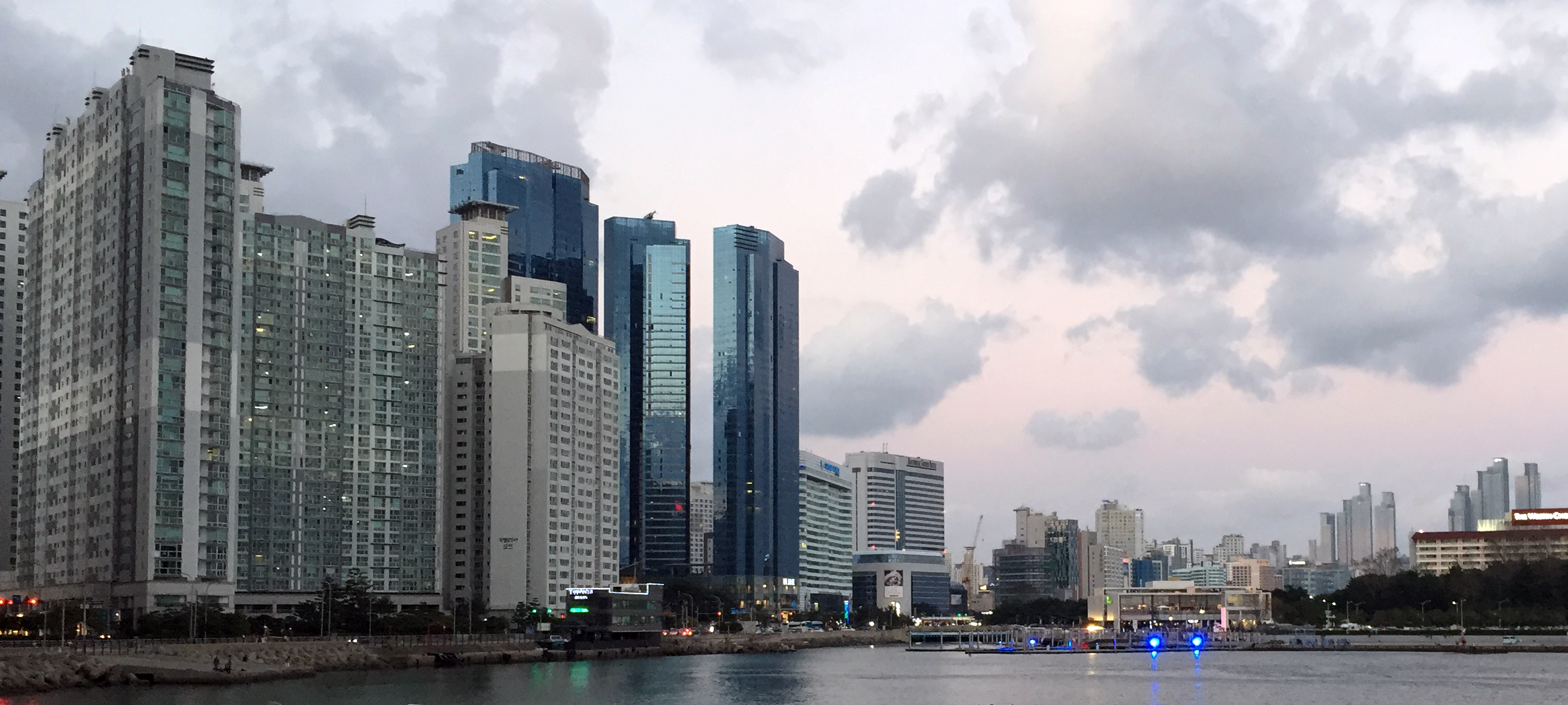 View of the Haeundae skyline in Busan, South Korea. Part of photograph from Flickr; author steveilott; license of CC BY 2.0. This is a part of the original photo, plus additional edits (lighting, cropping, etc.).